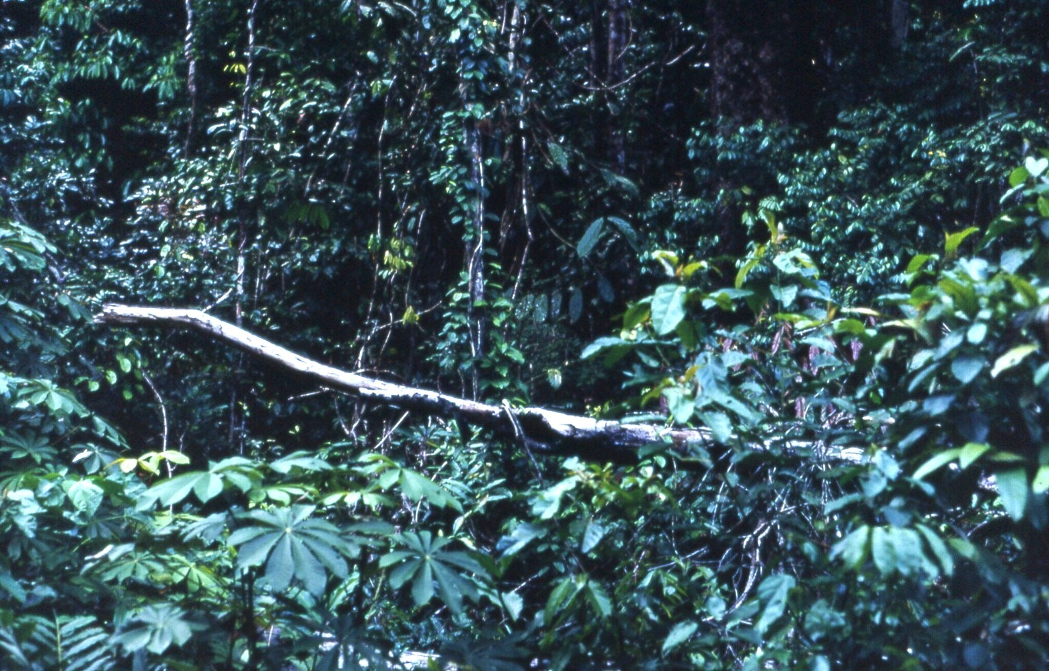 Rainforest at edge of logging. Photo taken in May, 1968